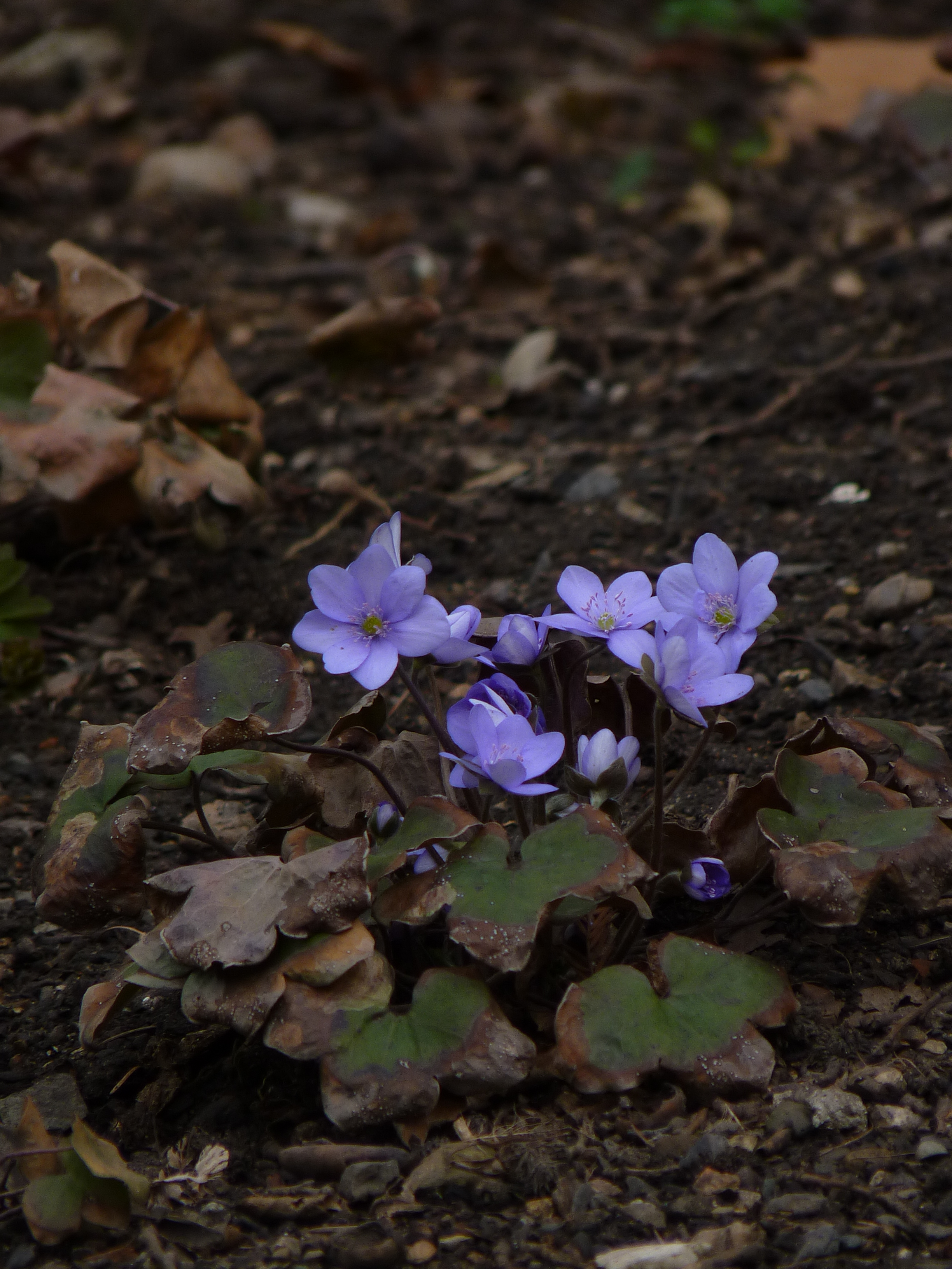 Anemone hepatica in the Botanical Gardens of Charles University, Prague - Czech Republic